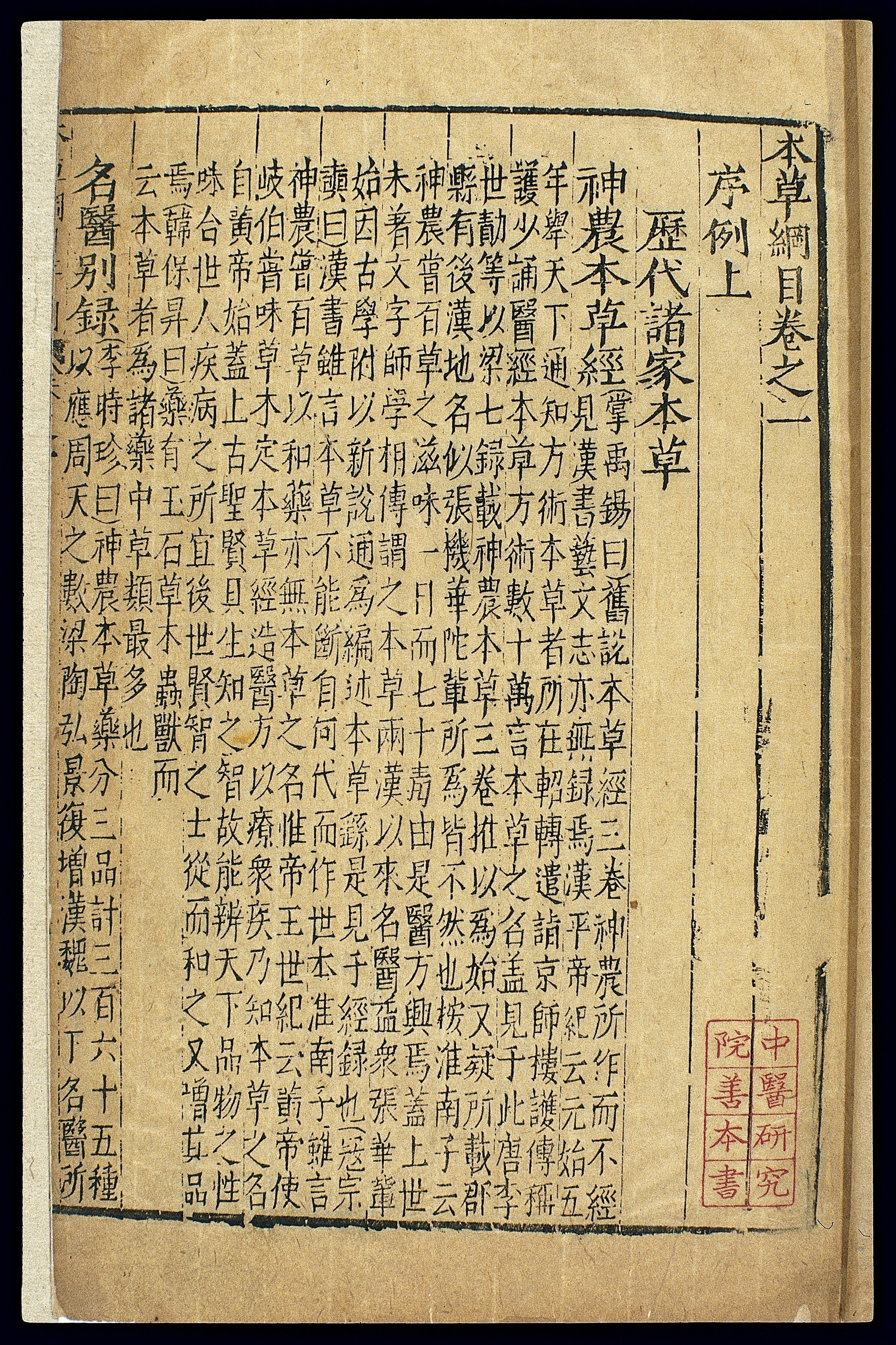 First page of the first edition ofBencao Gangmu(Systematic Materia Medica), woodblock print; held in held in the Rare Books collection of theLibrary of Zhongguo zhongyi yanjiu yuan(China Academy of Traditional Chinese Medicine.Li Shizhen completed his monumental pharmaceutical encyclopedia, Bencao gangmu, in 1578 at the age of 60. The first edition - known as the Jinling edition - was engraved by Hu Chenglong at Jinling (present-day Nanjing) in 1590. This is the first half-folio ofjuan(volume/fascicle) 1.Juan1 is devoted to a historical survey of the literature on materia medica. It includes an annotated bibliography and sections on key concepts of Chinese medicine and pharmacology. The bibliography begins with an introduction to the two ancient classicsShen Nong bencao jing(The Divine Farmer' s Canon of Materia Medica) andMingyi bielu(Additional Records of Famous Physicians) and concludes withBencao gangmuitself.Woodcut